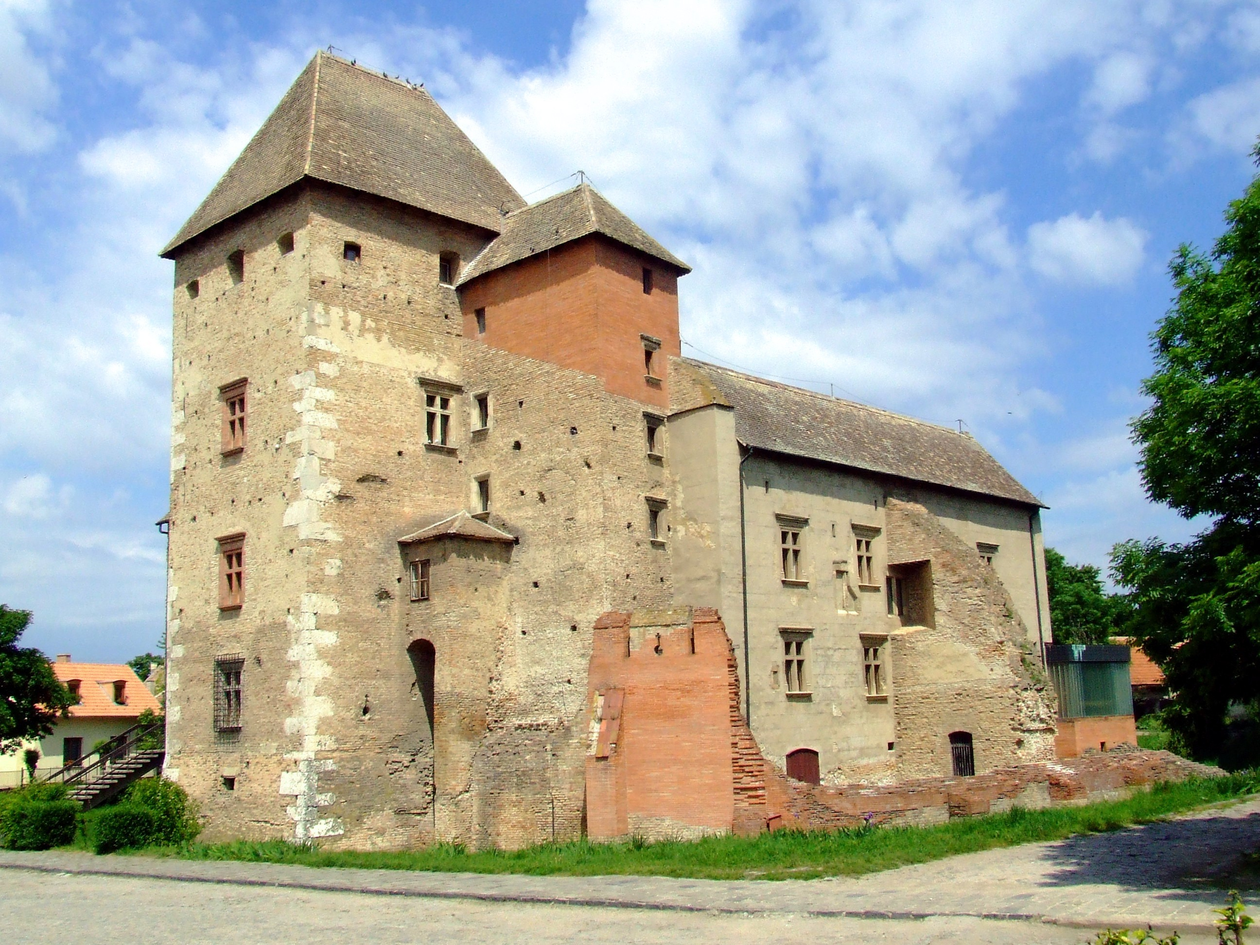 Simontornya Castle from the South